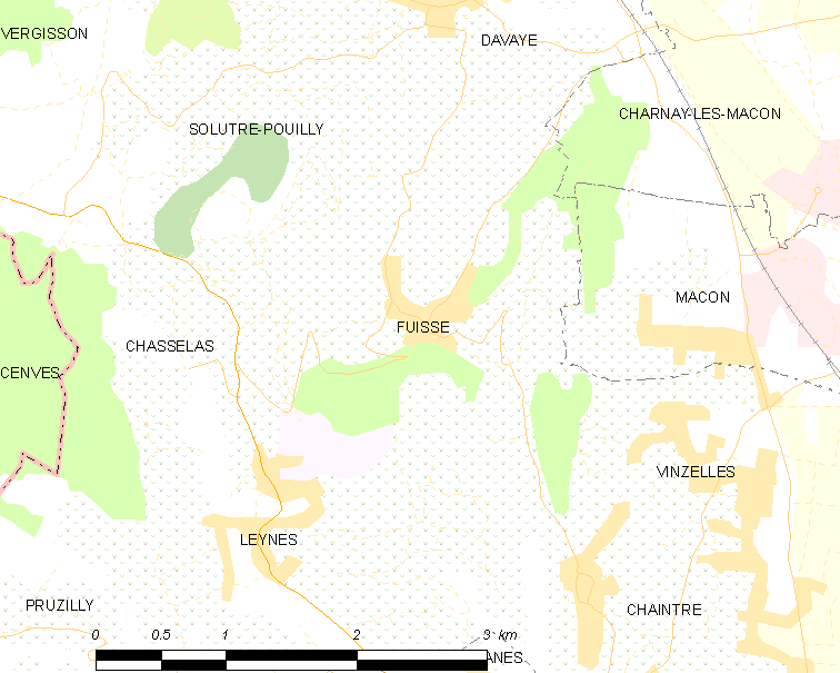 Map of French municipality